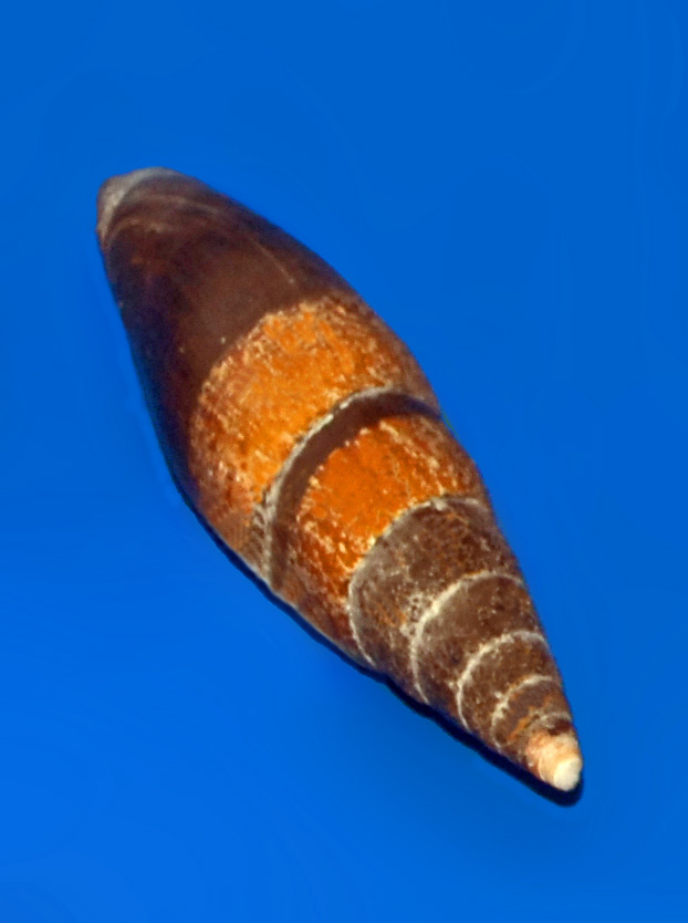 Shell of Mitra zonata from Adriatic sea at the Museo Civico di Storia Naturale di Milano